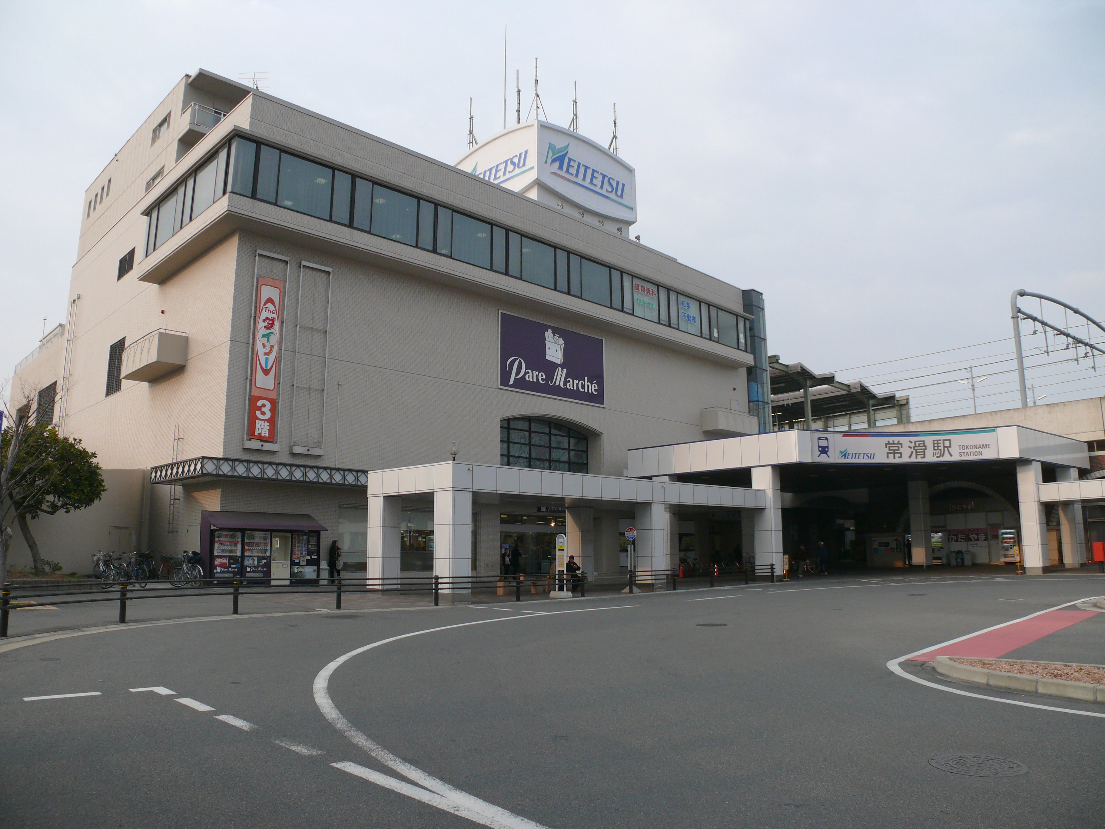 Meitetsu Tokoname Station.